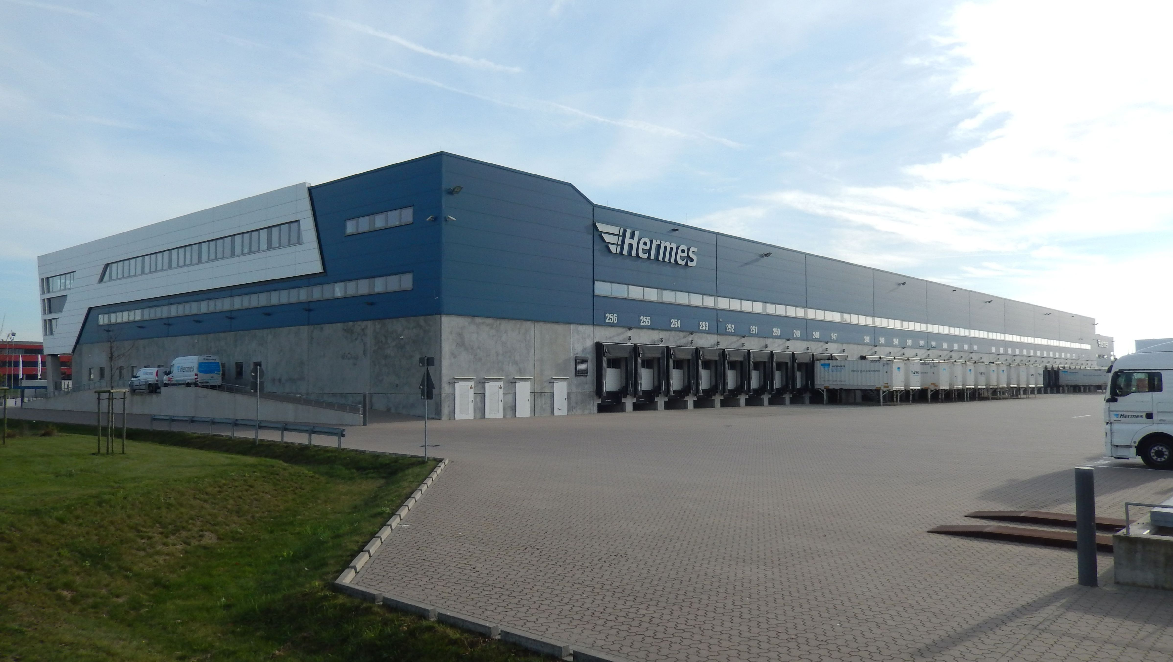 Hermes Logistics in Langenhagen, Germany.